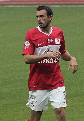 Martin Stranzl